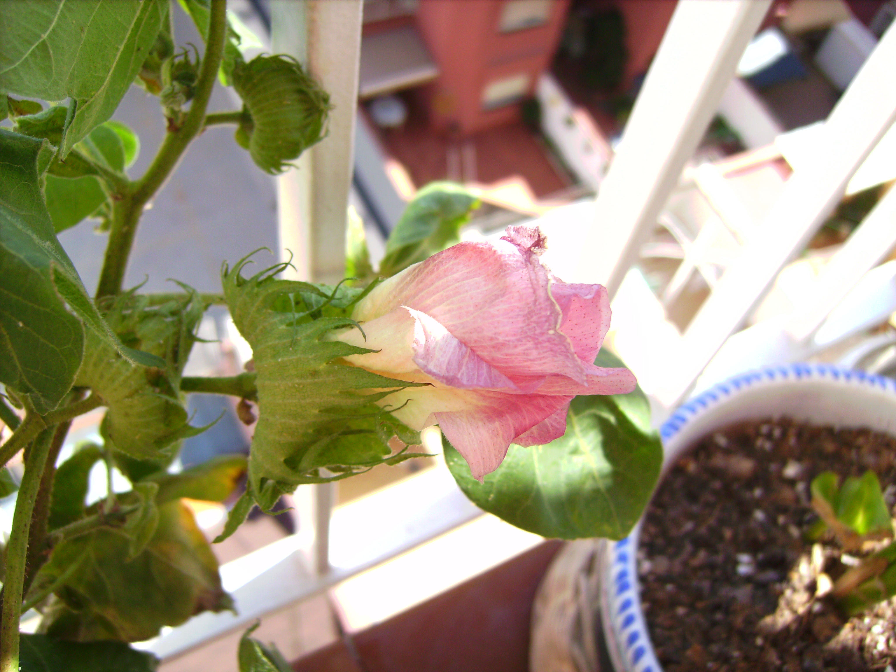 Gossypium hirsutum (cotton species) flower growing in a pot in Barcelona